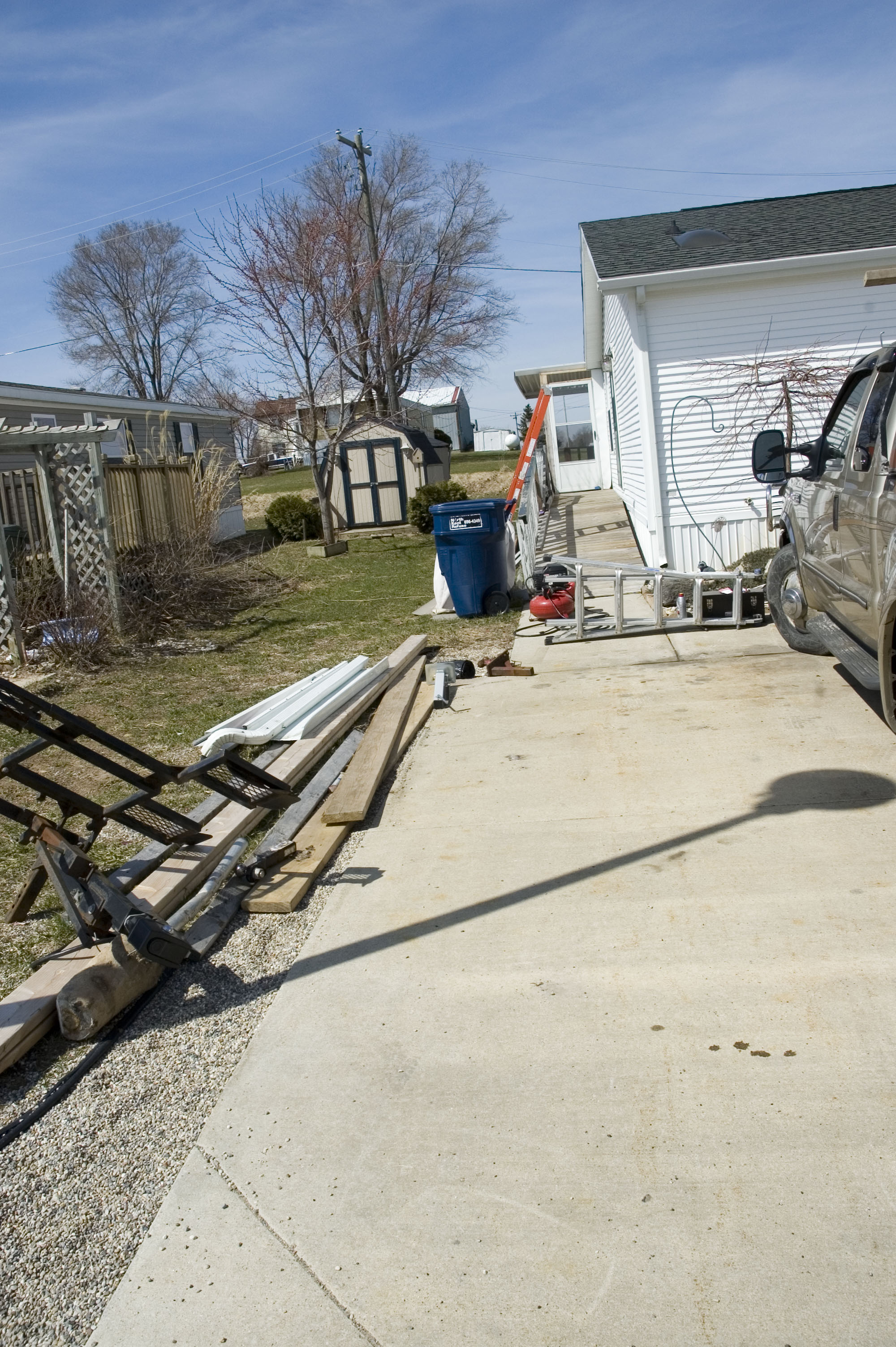 An unkept trailer park. "Trailer trash" is American slang for degenerate residents of trailer parks; see "white trash".